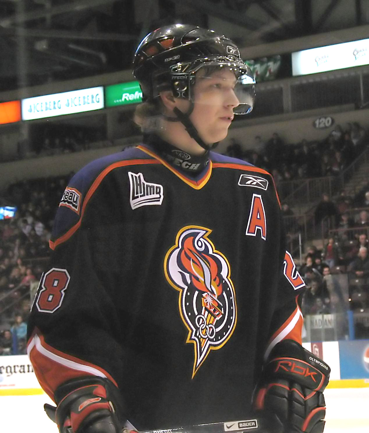 Claude Giroux playing against the St. John's Fog Devils